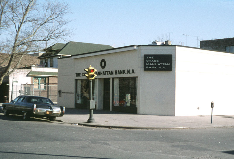 Photo of Chase Manhattan Bank branch located at 450 Avenue P. (Brooklyn, New York. This was the bank which was robbed in 1972 which inspired the film "Dog Day Afternoon") Taken in 1975 by Larry Fendrick (User:Brooklynl asserts that he is Larry Fendrick, the photographer, witness to the original event) Originally uploaded to Wikipedia by User:Brooklynl 16:18, 3 May 2006